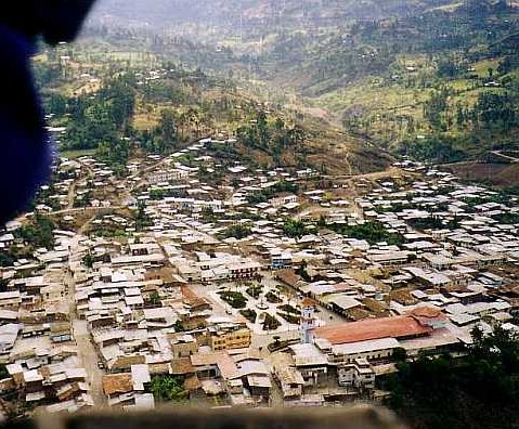 Huancabamba as seen from paraglider